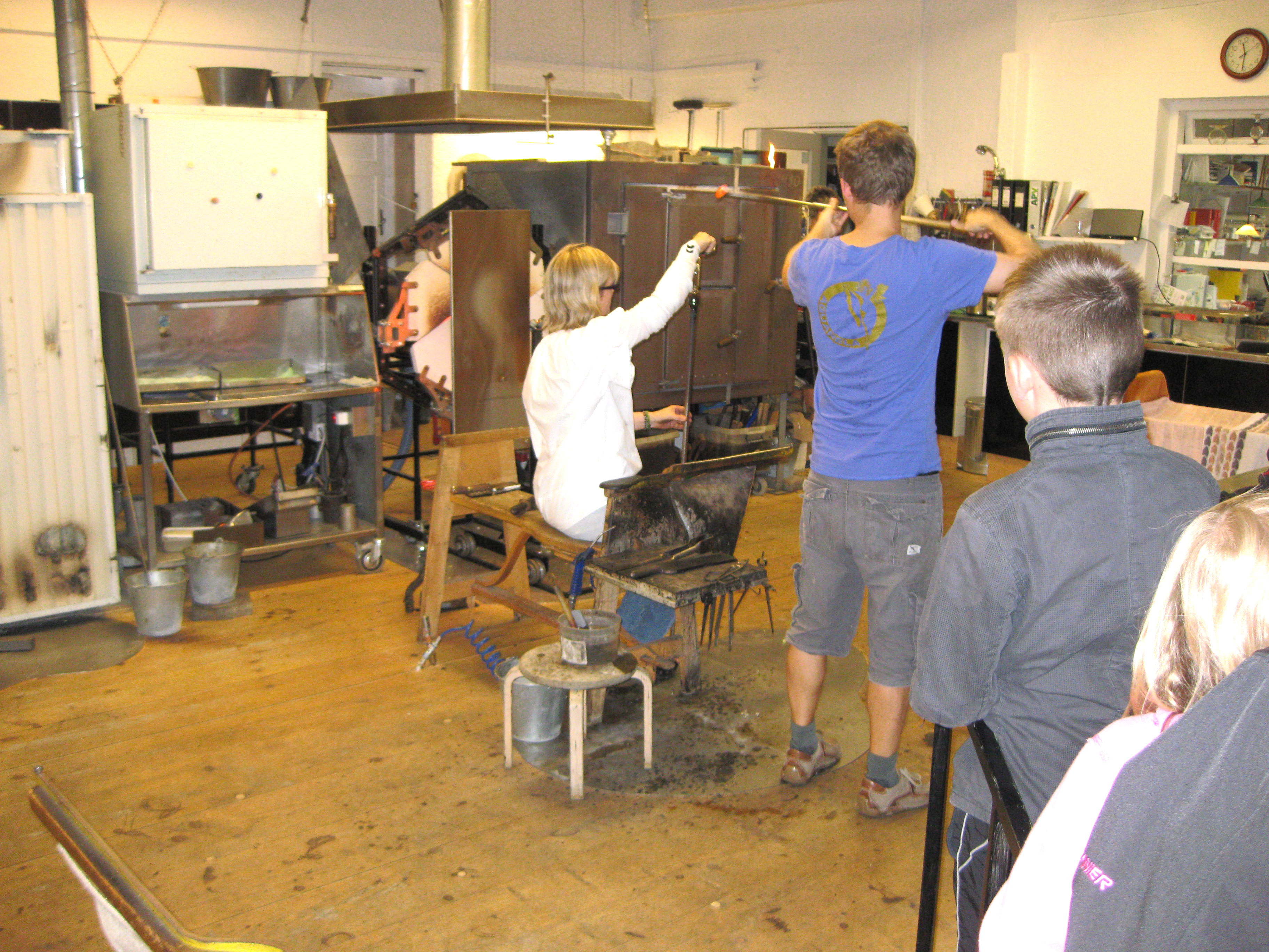 Glass art are manufactured at a workshop in the small town "Svaneke". The town is located on the island Bornholm in east Denmark.